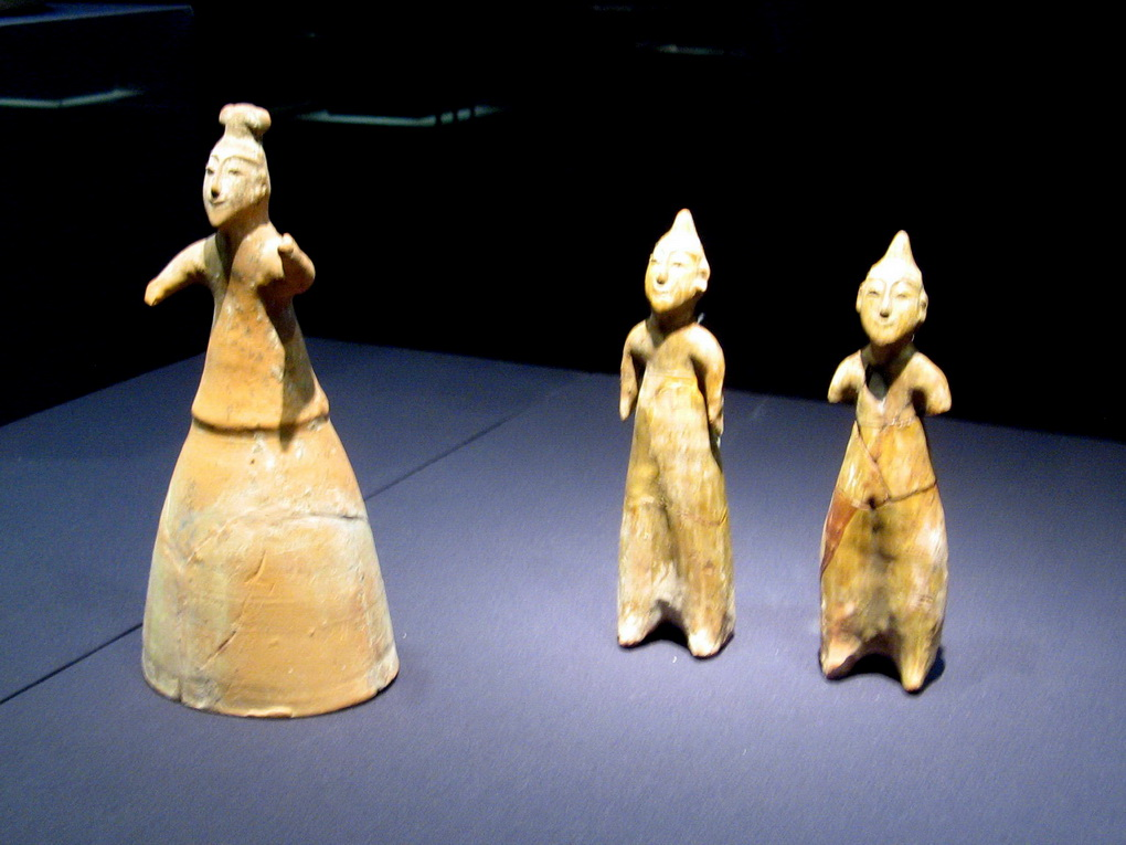 celadon standing man figure, Haidian Museum, Wei Dynasty.Excavated in Balizhuang, Beijing in 1987.